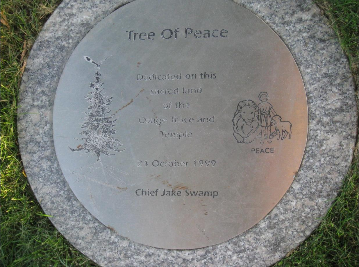 Descriptive plaque at the foot of an oak tree ceremoniously planted October 24, 1999 by the Tree of Peace Society, a few yards south of Lexington Street in Independence, Missouri, a southwest-curving stretch of Lexington Street which follows the route of the ancient Native-American "Great Osage Trail." The Peace tree is also on the property of the RLDS/Community of Christ "Independence Temple," on real estate claimed and then purchased by Mormon leaders in 1831.